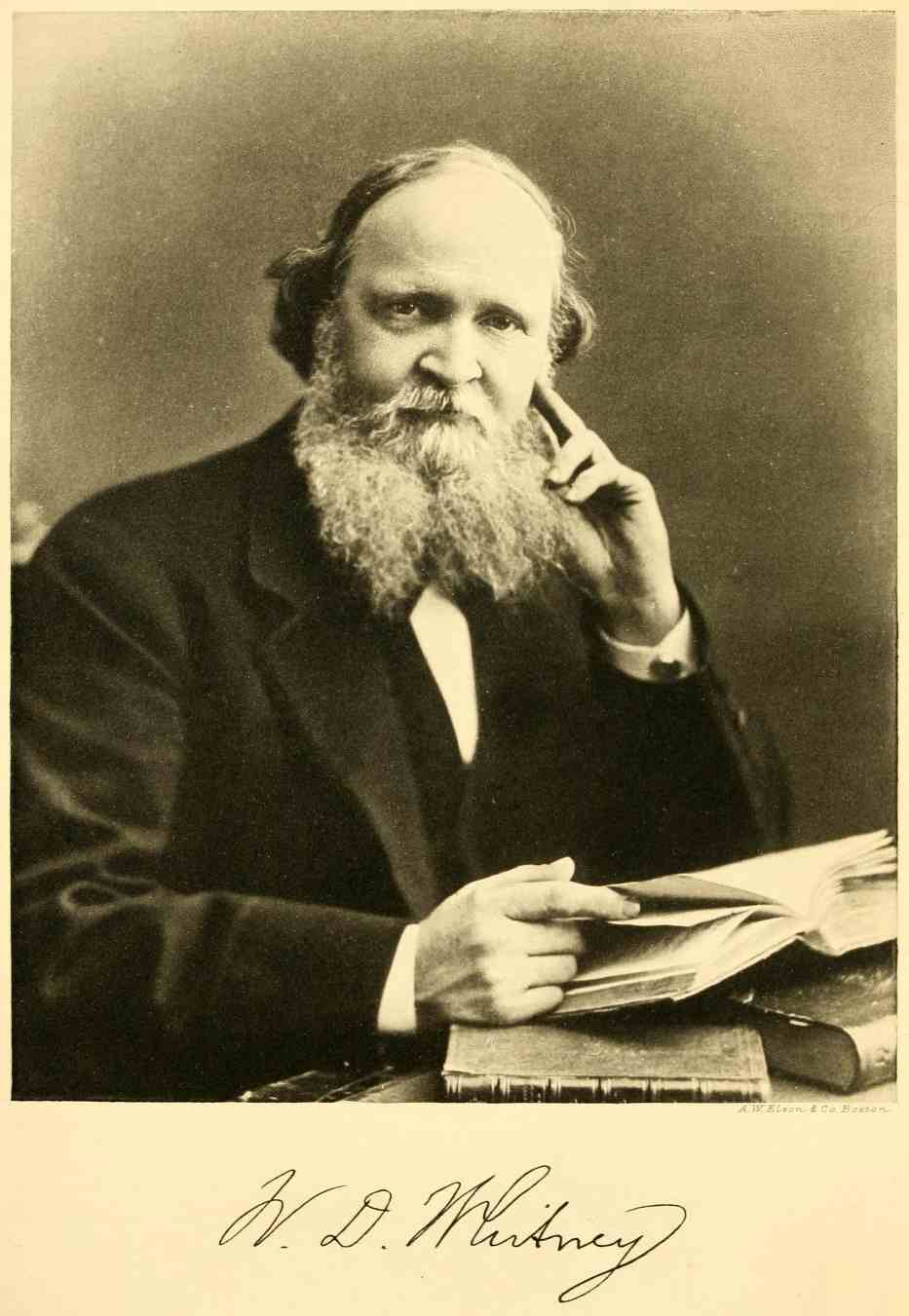 A picture of William Dwight Whitney, the American linguist.